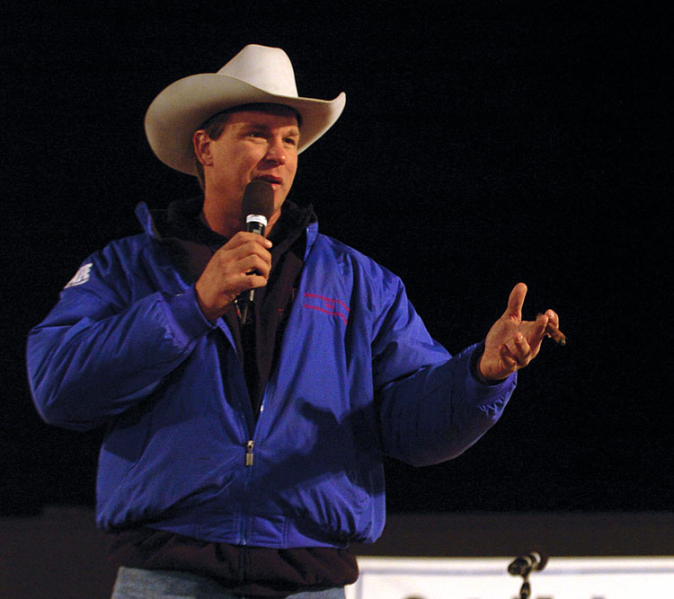 John "Bradshaw" Layfield during the USO Tour in December 2004.